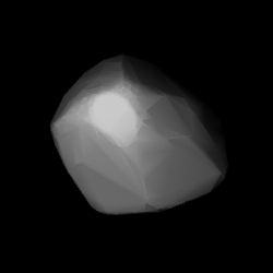 3D convex shape model of 1245 Calvinia, computed using light curve inversion techniques. J. Hanuš, J. Ďurech, M. Brož, B. D. Warner (June 2011). "A study of asteroid pole-latitude distribution based on an extended set of shape models derived by the lightcurve inversion method". Astronomy and Astrophysics 530: A134. ISSN 0004-6361. arXiv